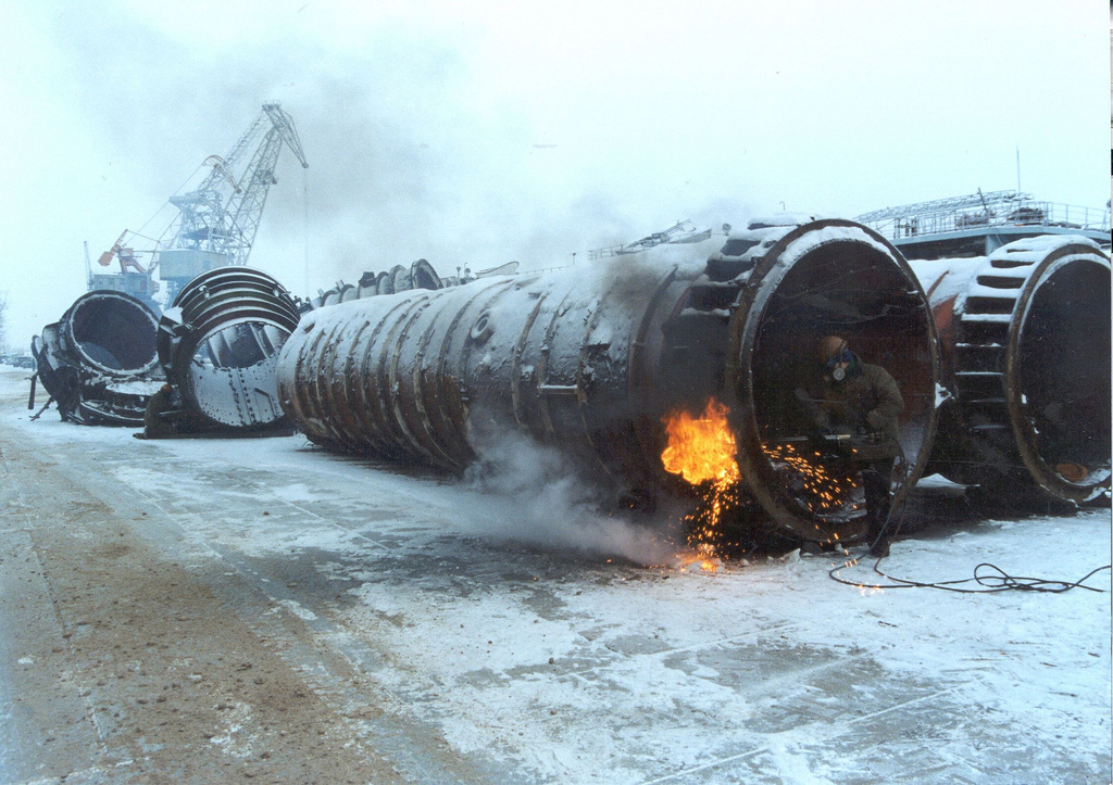 Missile launch tubes removed from a ballistic missile submarine are eliminated with equipment and services provided by the Department of Defense’s Cooperative Threat Reduction program implemented by the Defense Threat Reduction Agency.